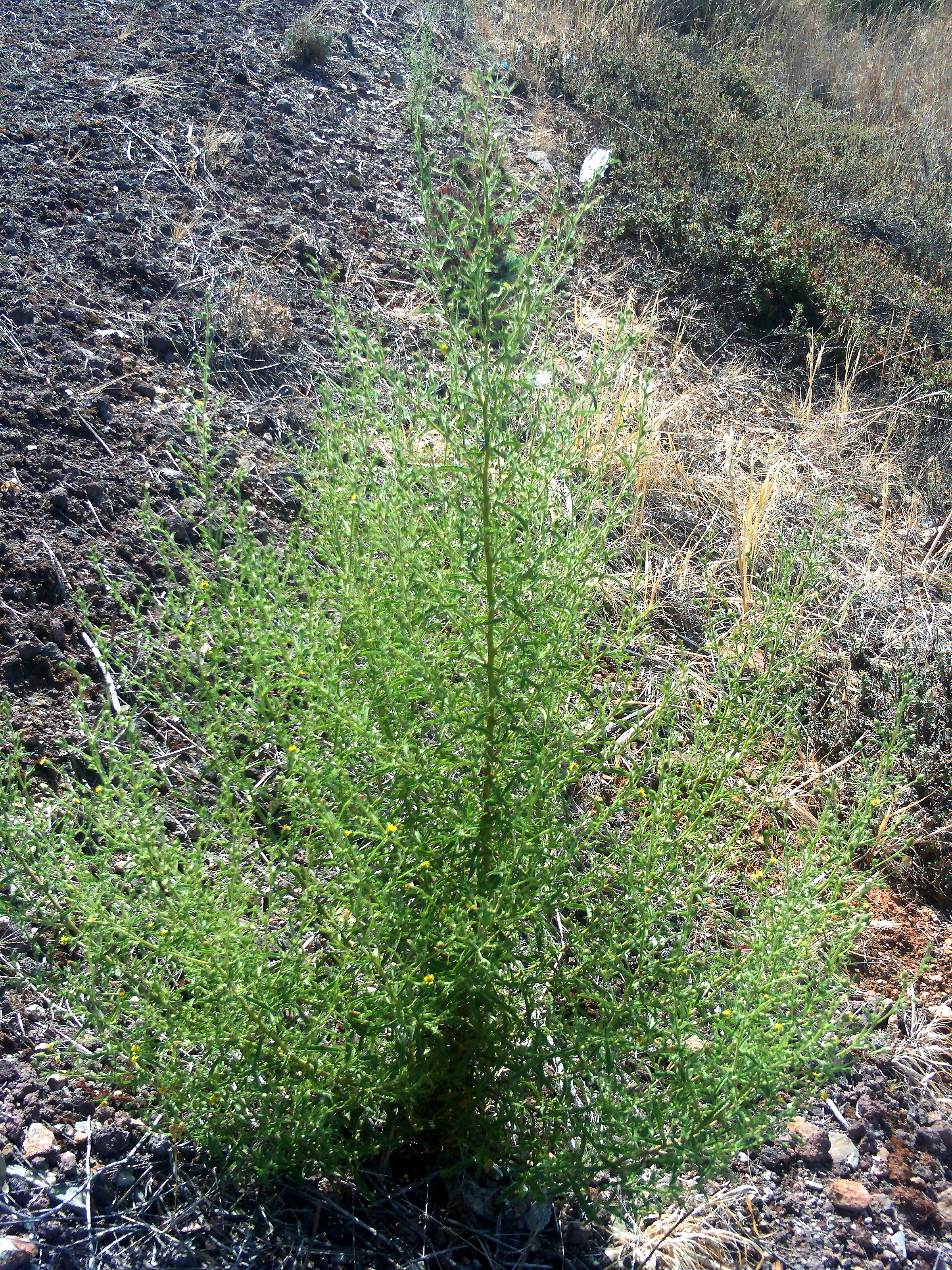 Dittrichia graveolens habit, Dehesa Boyal de Puertollano, Spain